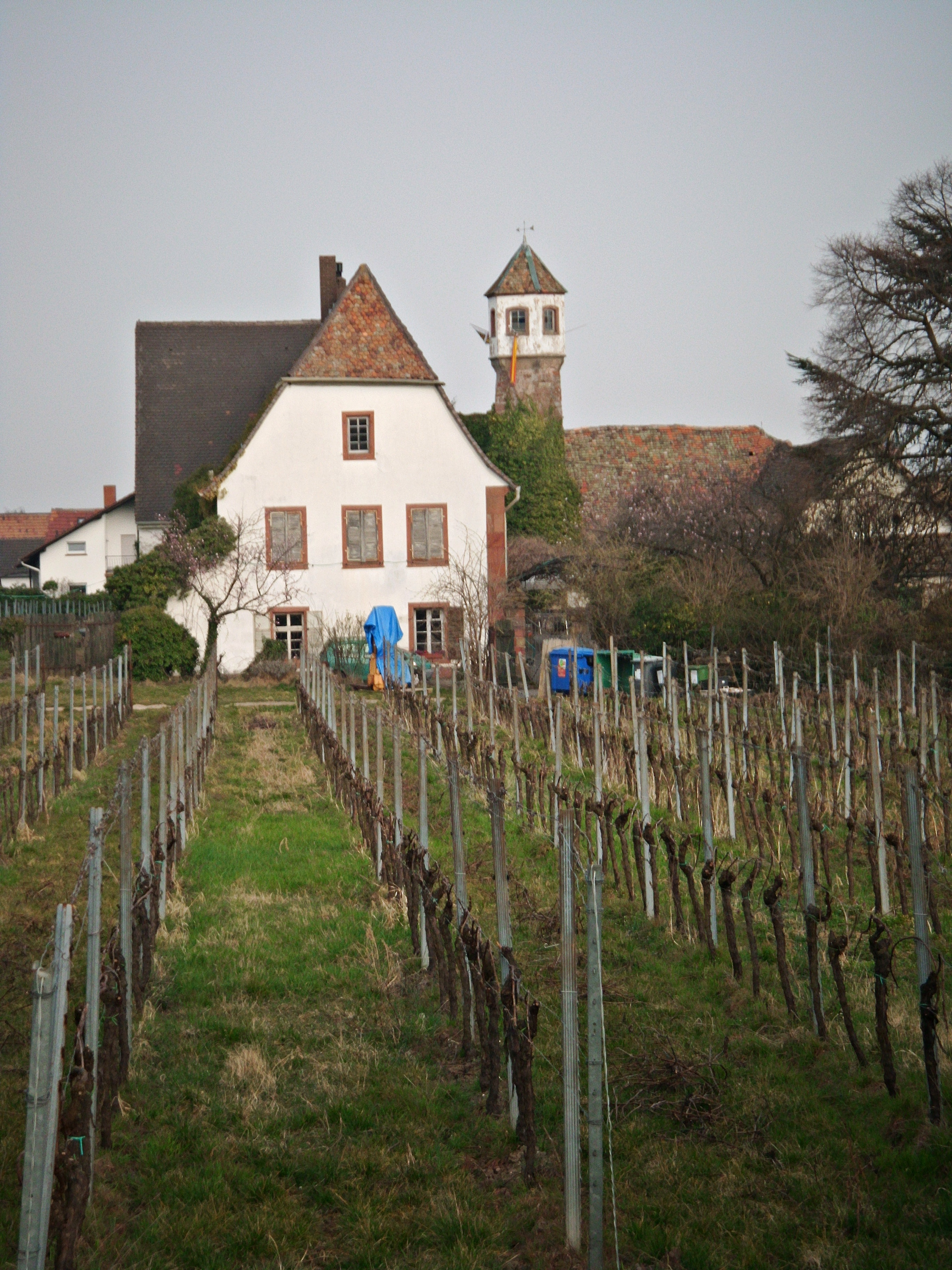 Kloster Heilsbruck, Edenkoben